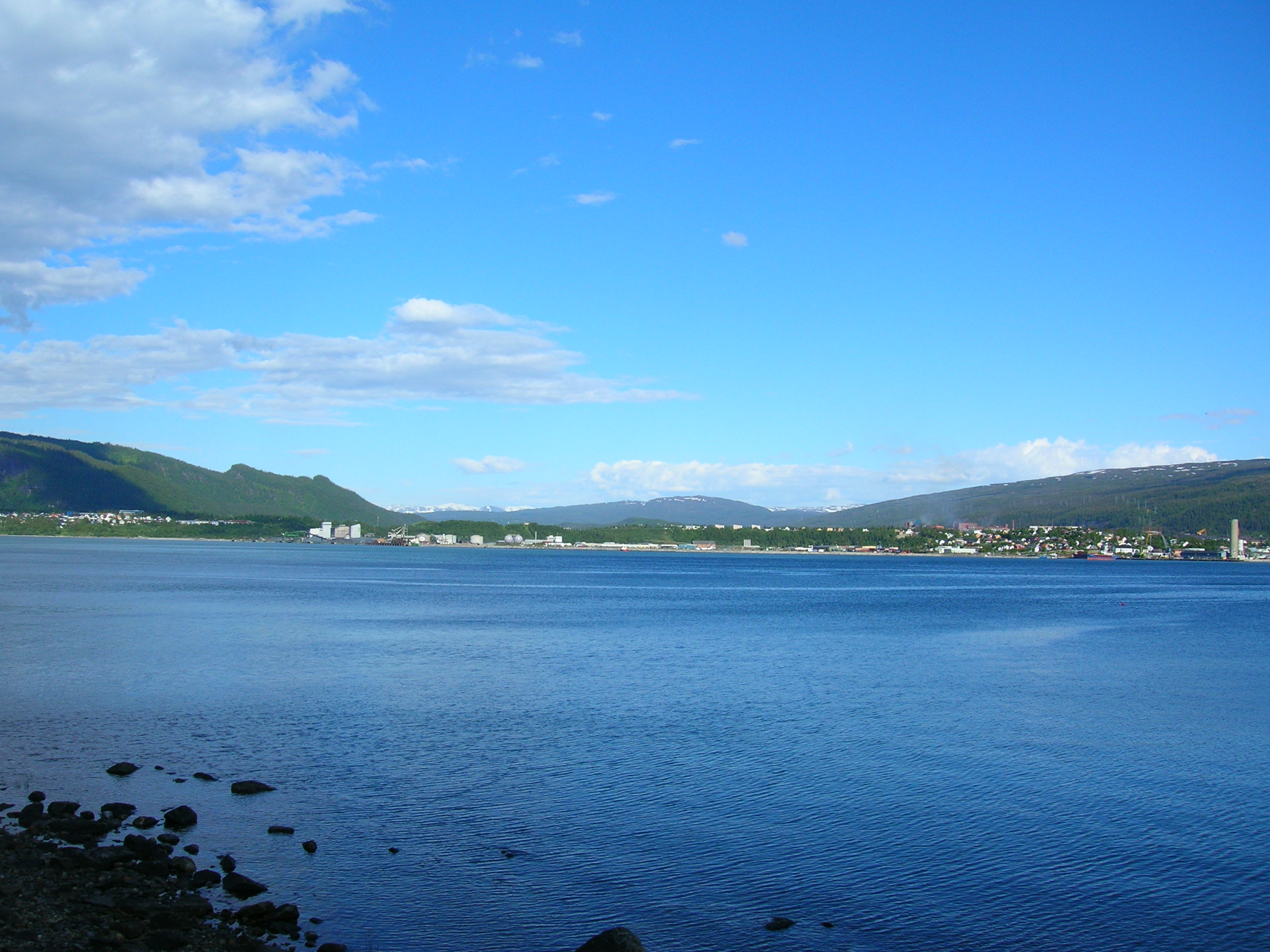 The fjord Ranfjorden seen from north, between Båsmoen and Alteren in Rana municipality, Nordland, Norway. Photo June 21, 2007 with a Nikon Coolpix 5600 5,1 Megapixel camera.